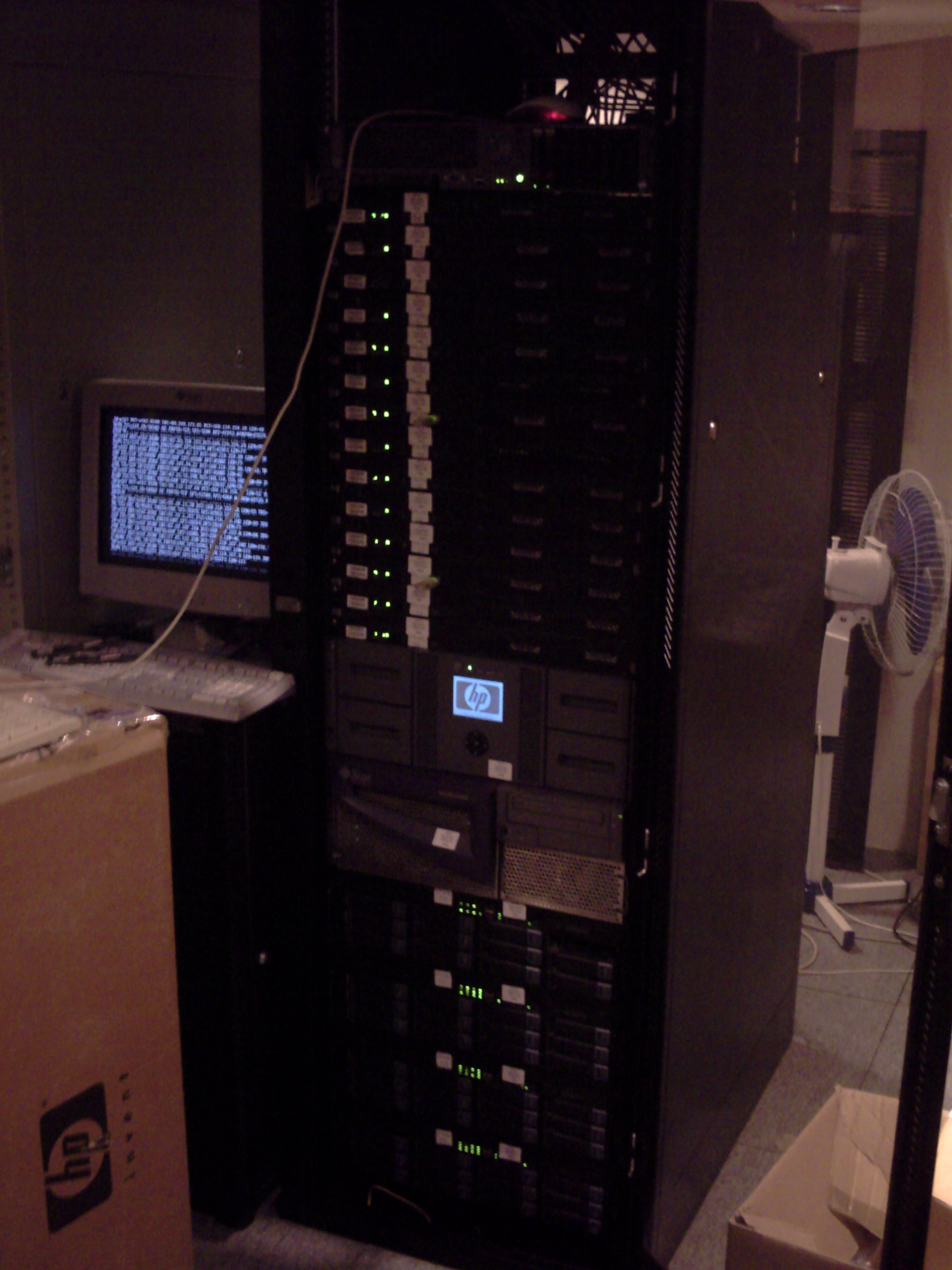 A mainframe on the first floor of the building of JATIK, University of Szeged. This computer is the spirit of the network of the library. The photo have been taken on a "Night in The Library, 2009" tour.